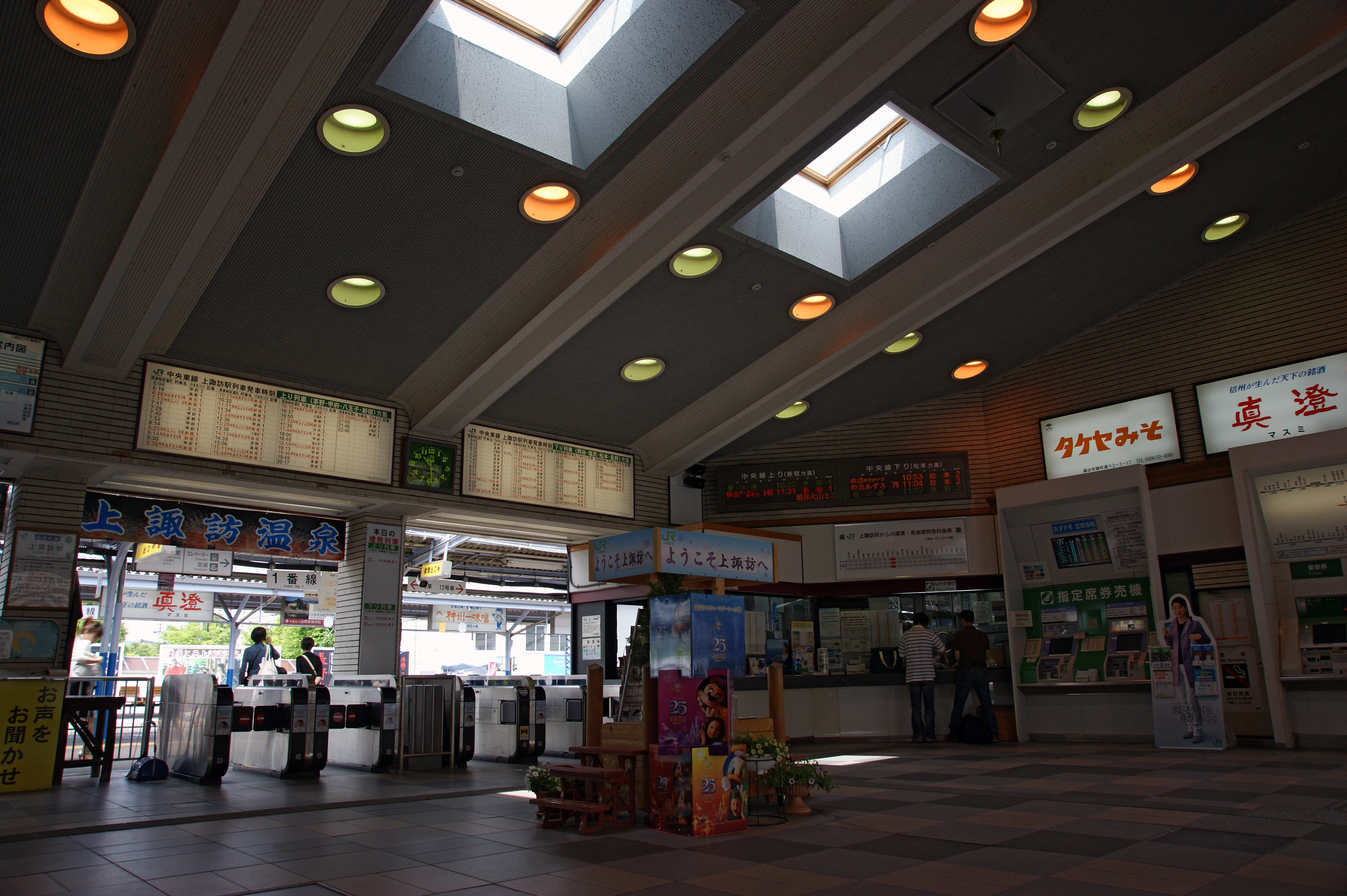 Kamisuwa Station, Suwa, Nagano prefecture, Japan